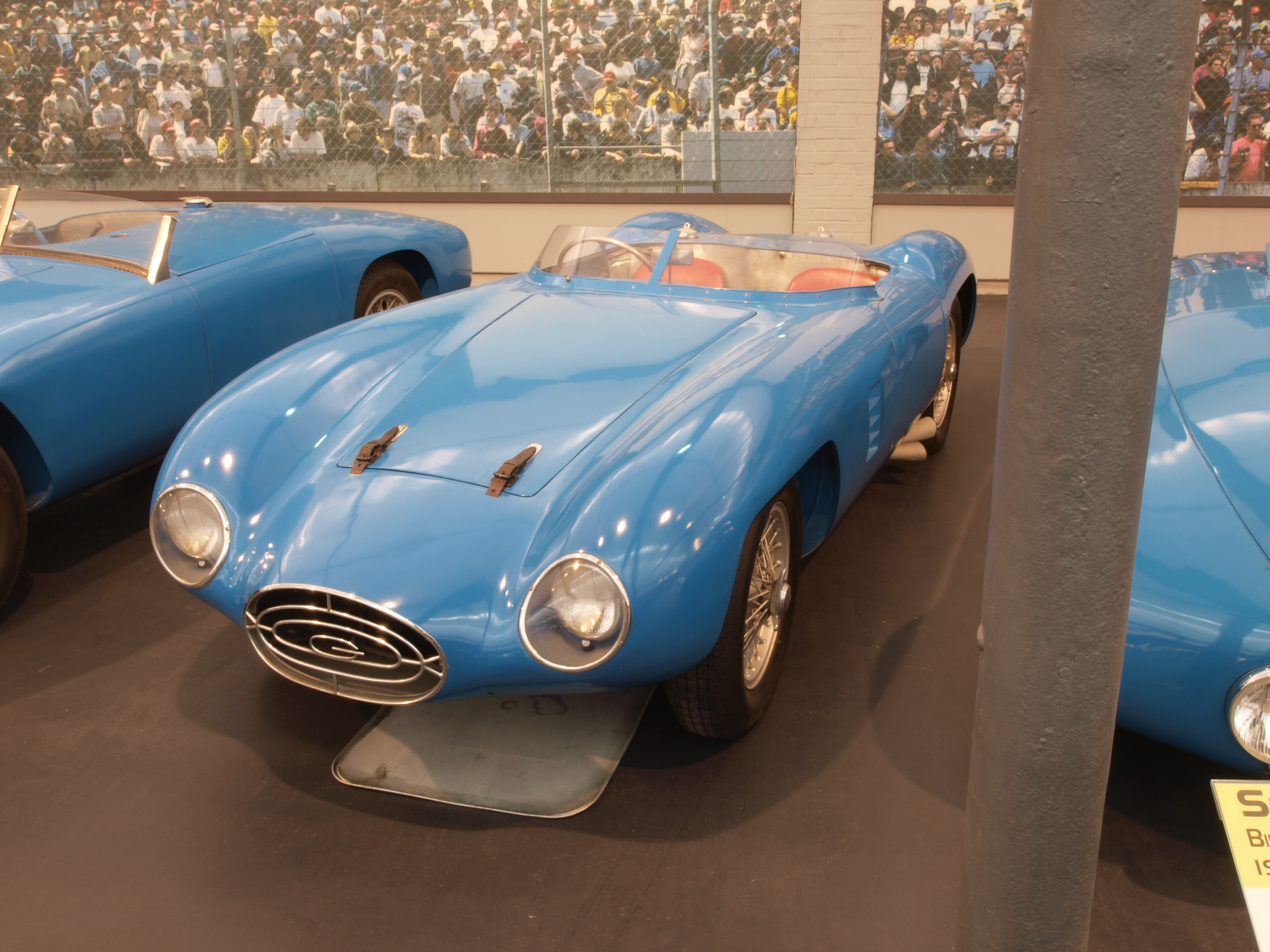 Photographed at the Cité de l’Automobile, France. OLYMPUS DIGITAL CAMERA